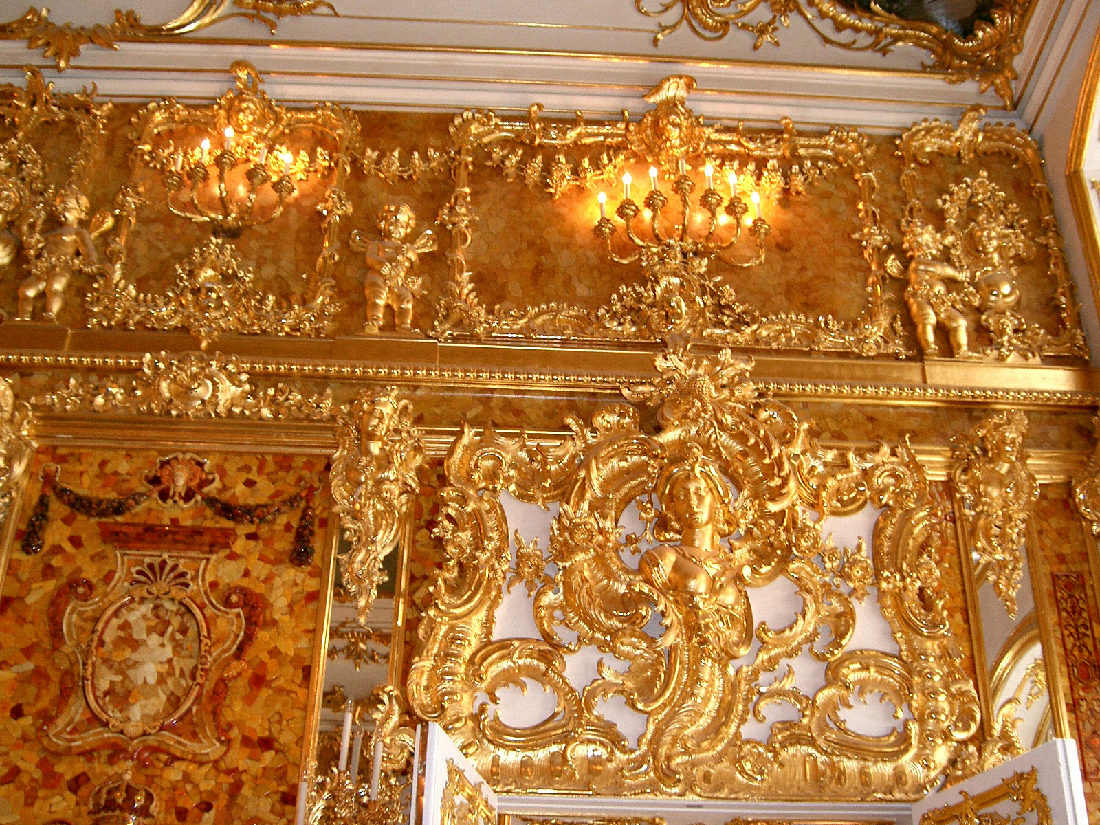 Pushkin (Russia), Amber room of the Catherine Palace